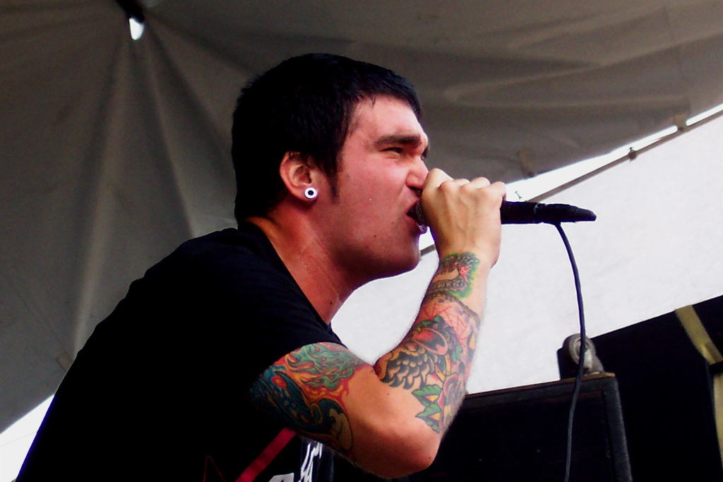 Jordan Pundik of New Found Glory performing on August 18, 2004.